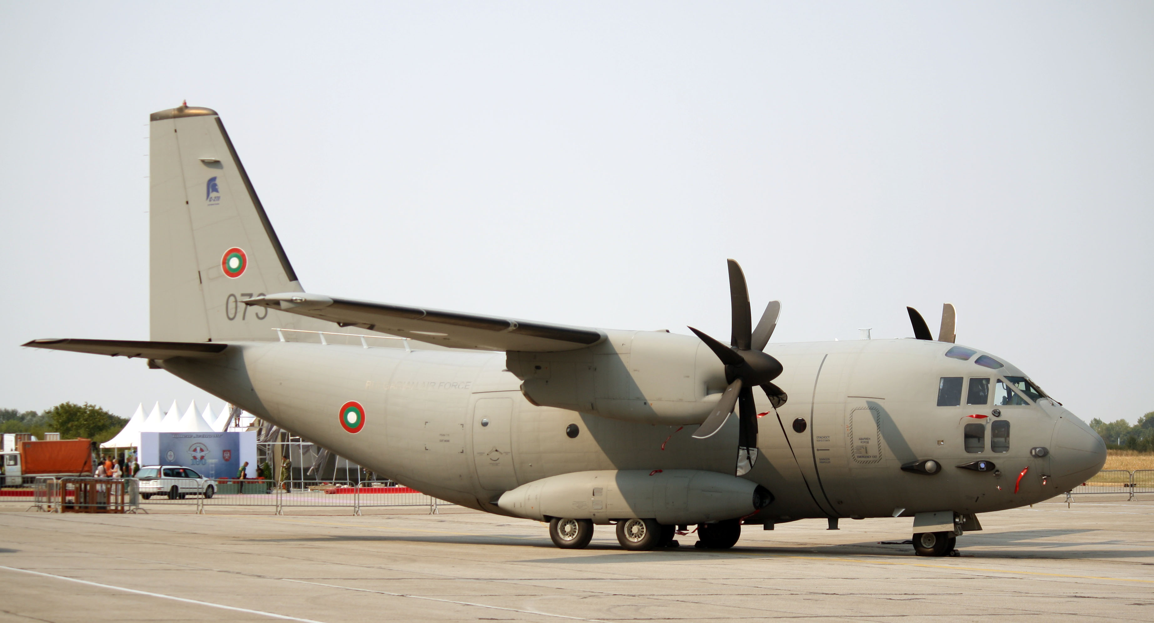 C-27J Spartan transport aircraft of Bulgarian Air Force on display at Batajnica Air Show 2012 held to celebrate 100 years of Serbian Air Force.